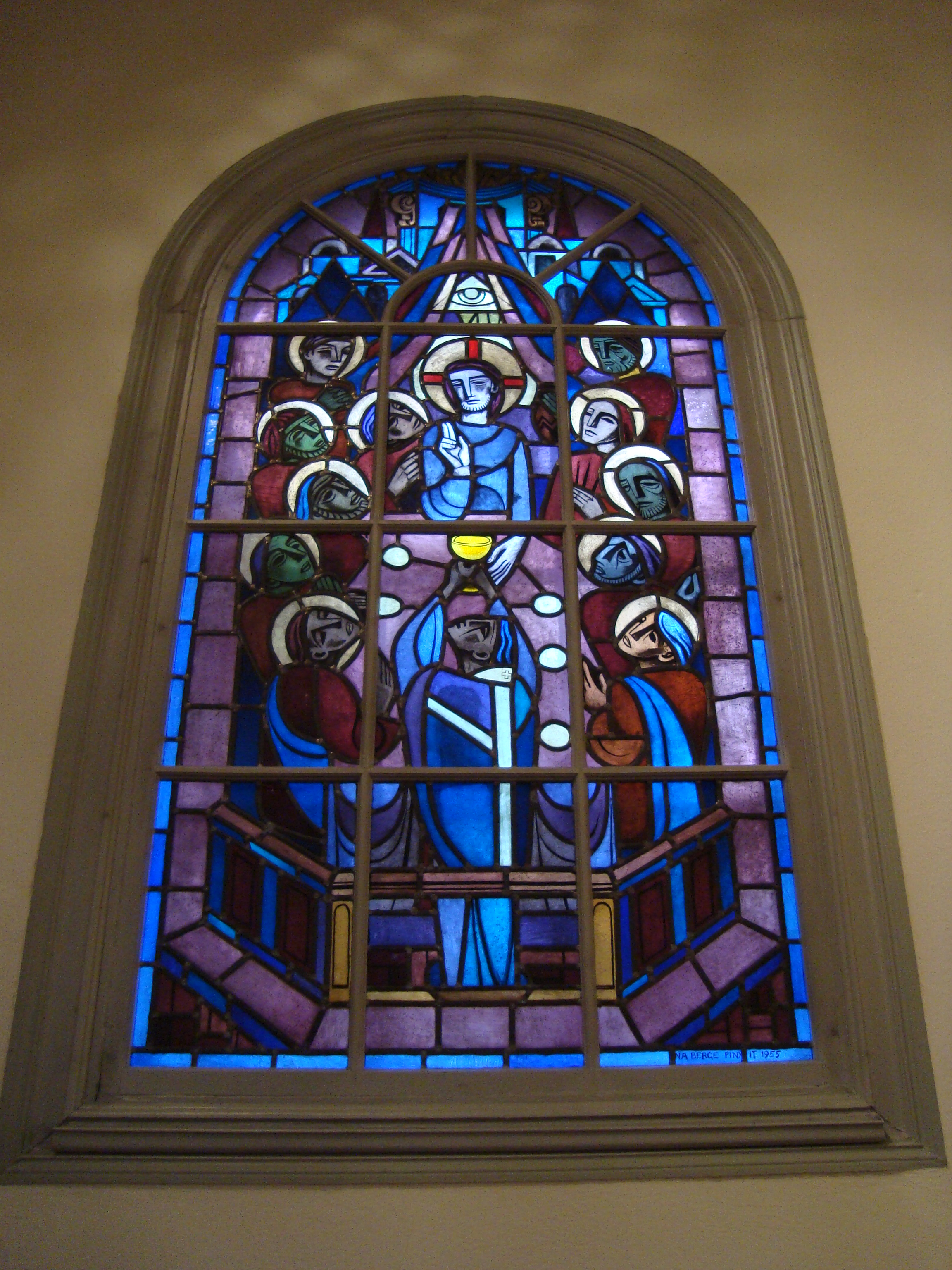 Ludvika Ulrica church, Ludvika, Sweden